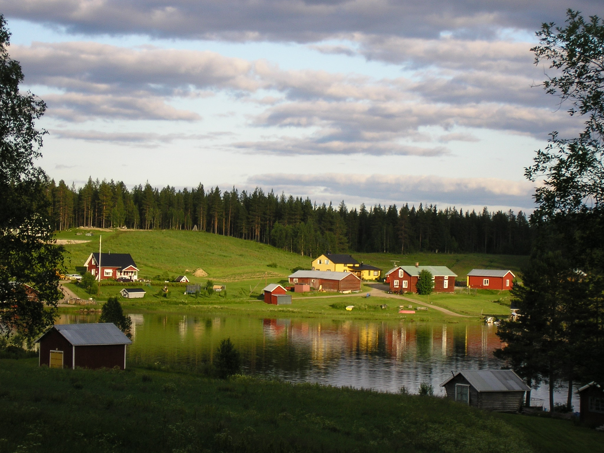 Kannusjärvi-Tornevalley